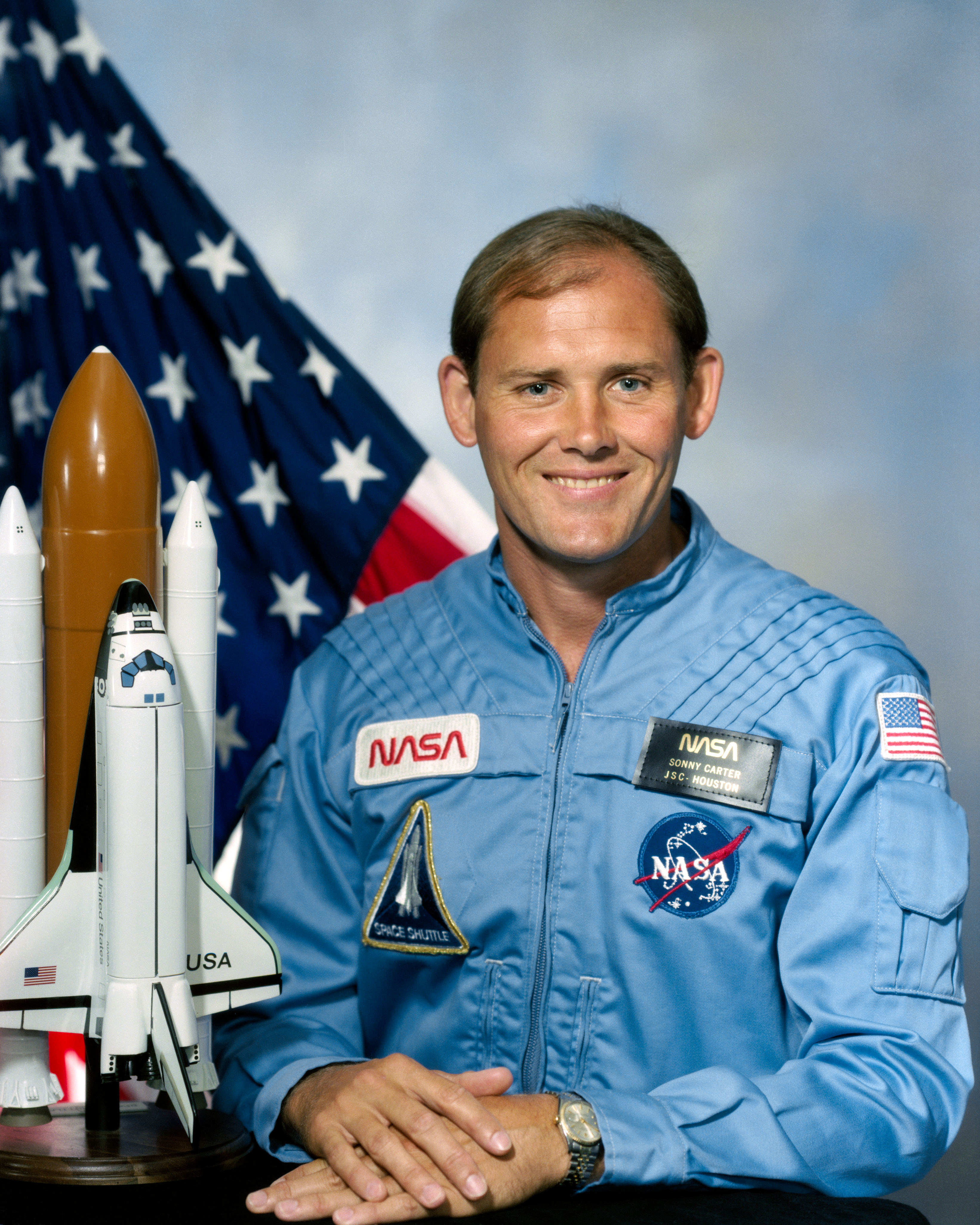 Official portrait of Astronaut Sonny Carter dressed in blue flight suit, with flag and a Space Shuttle model (left).